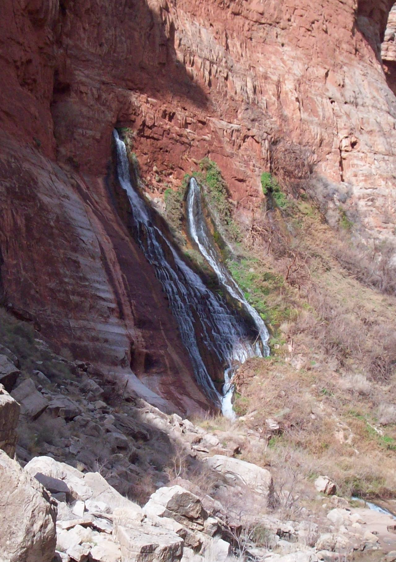 Vasey's Paradise, located 1 mile downriver of the terminus of the South Canyon Trail.